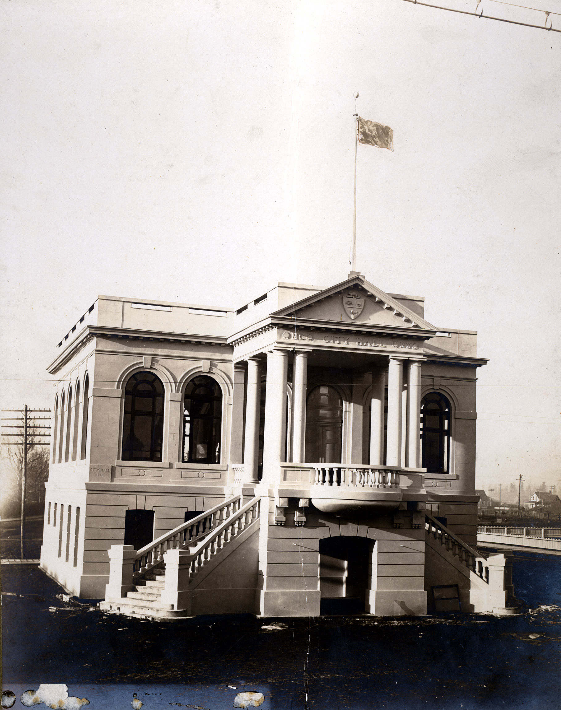 Black and white photograph of the new Chilliwack City Hall, in Chilliwack, British Columbia, Canada, 1912.